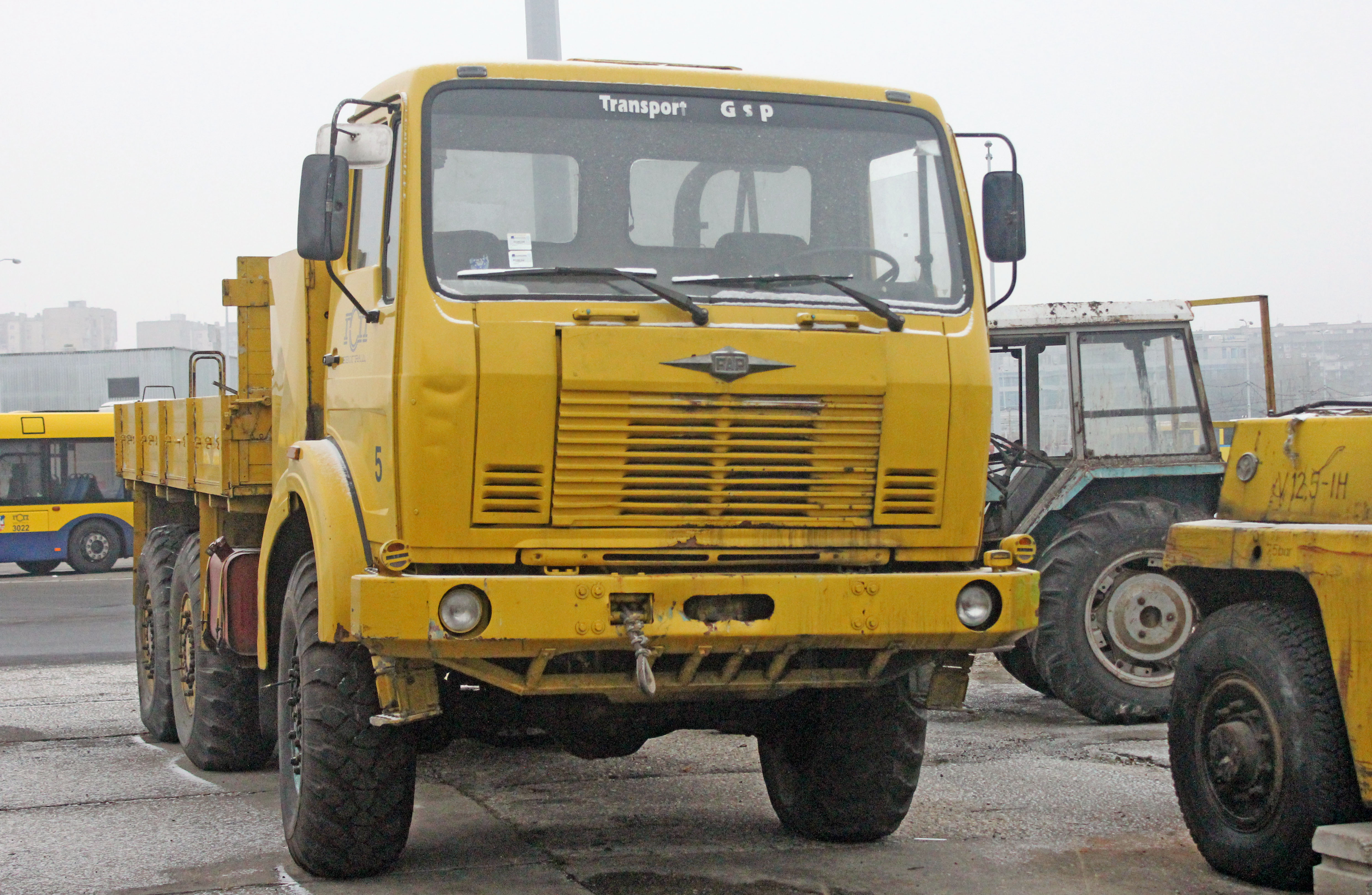 FAP 2026 BS/AV truck of GSP Beograd public transport company.